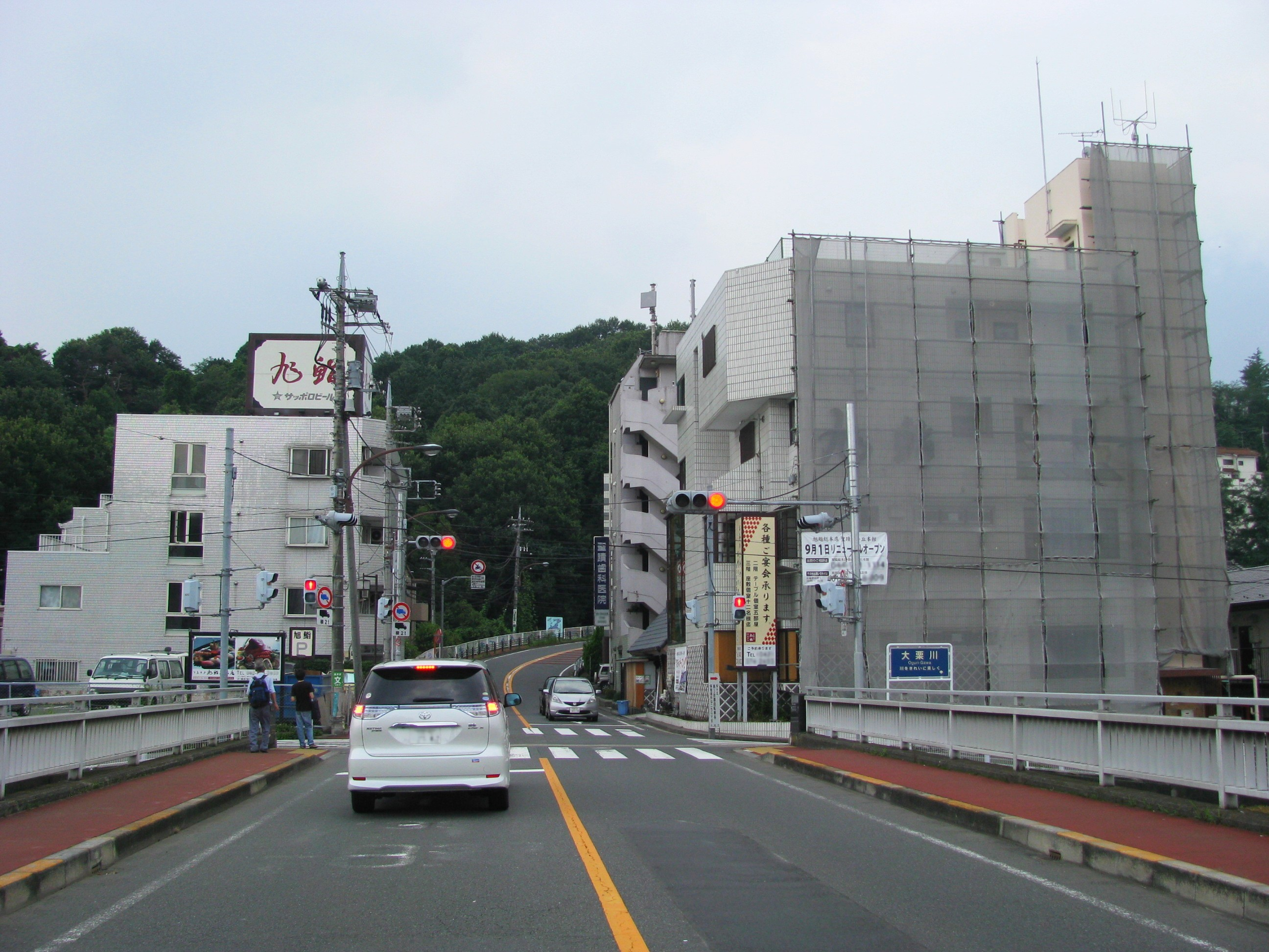 This location is Sakura-ga-oka in Tama, Tokyo, Japan.